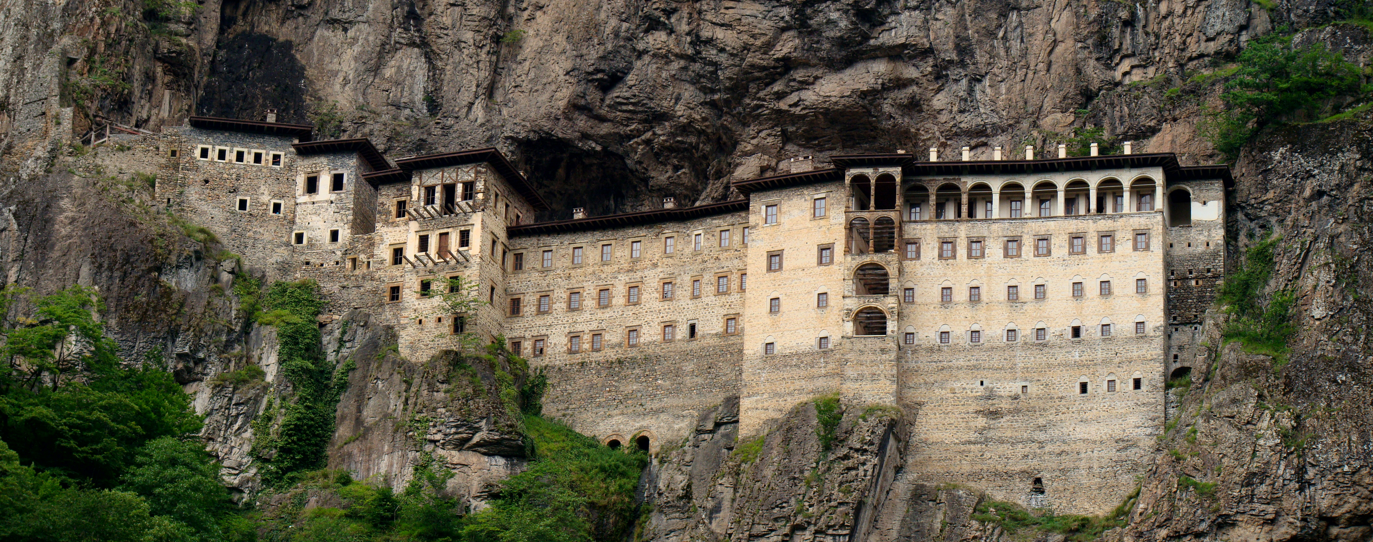 The Sümela Monastery as seen from across the narrow Altındere valley that it is located in, south of Trabzon in Eastern Turkey.